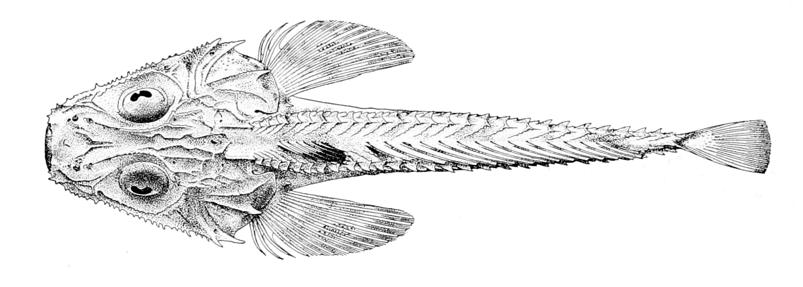 Hoplichthys platophrys